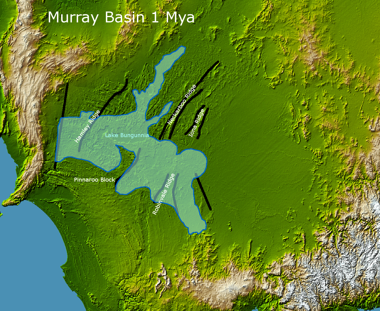 Lake Bungunnia of the Murray_Basin Australia about 1 million years ago. It formed about 2 Mya and disappeared by 600000 years ago.